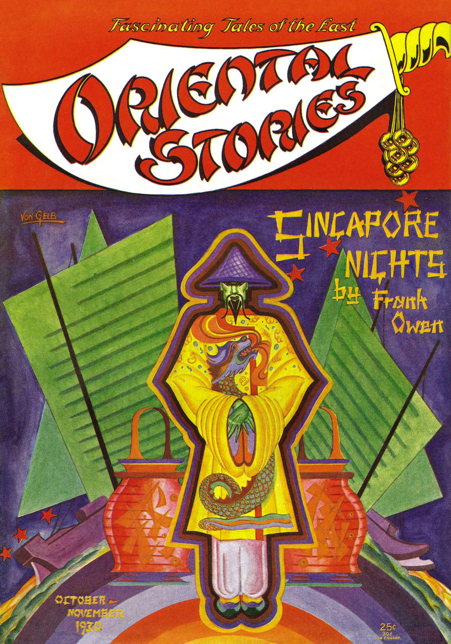 Cover of the pulp magazine Oriental Stories (October-November 1931, vol. 1, no. 1) featuring Singapore Nights by Frank Owen.